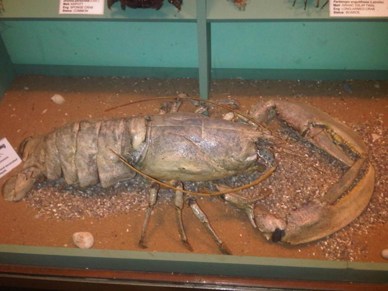 European lobster (Homarus gammarus) at the National Museum of Natural History, Vilhena Palace, Republic of Malta.